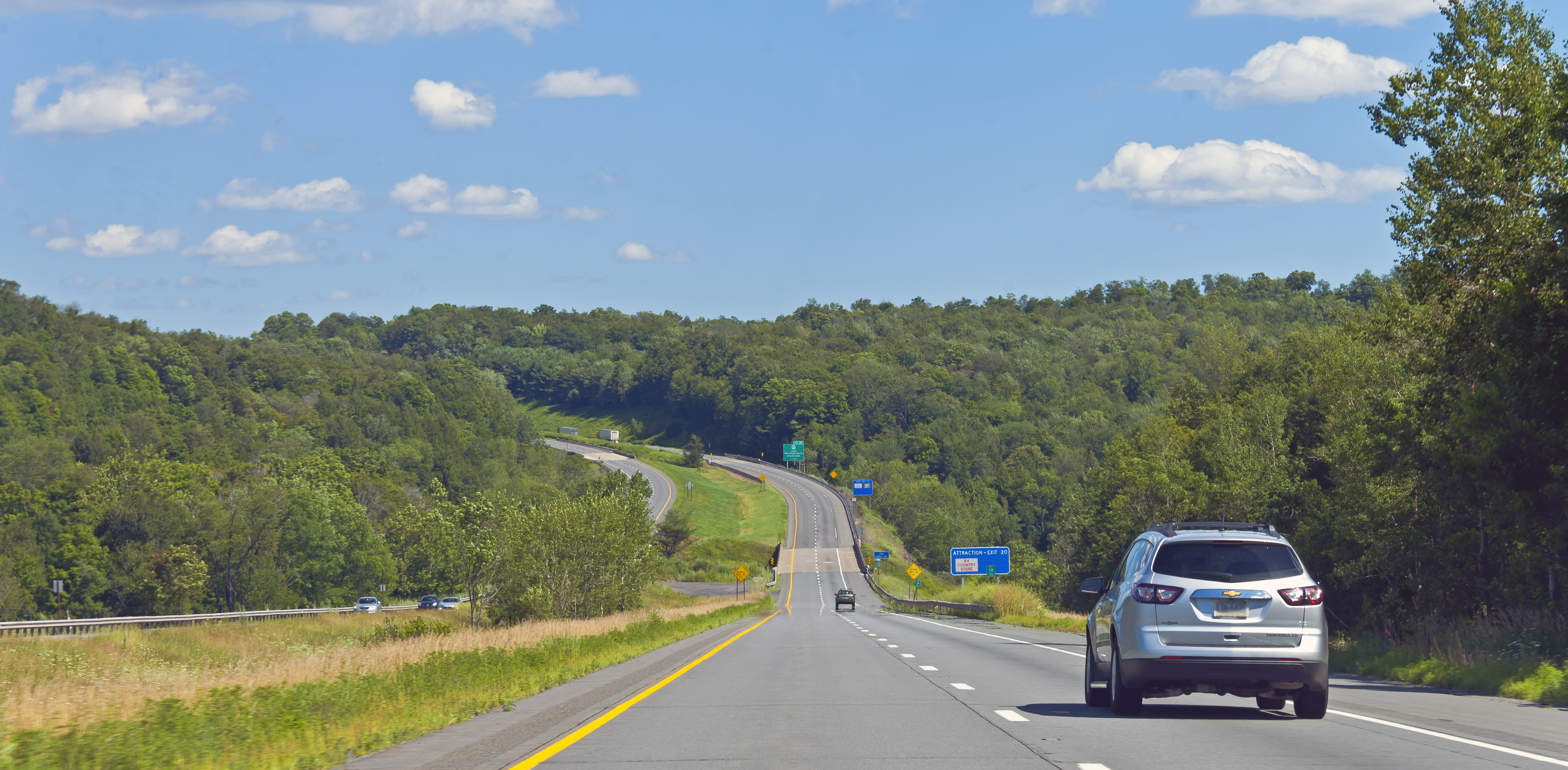 Interstate 84 in Pennsylvania, traveling east at the Wayne–Pike county line. License plate number on car ahead has been blurred for privacy reasons.